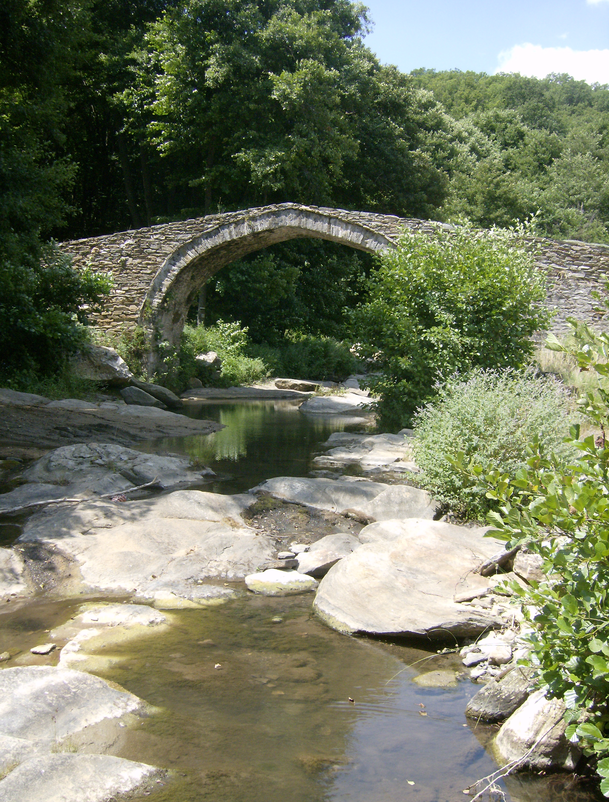 Aterenski bridge